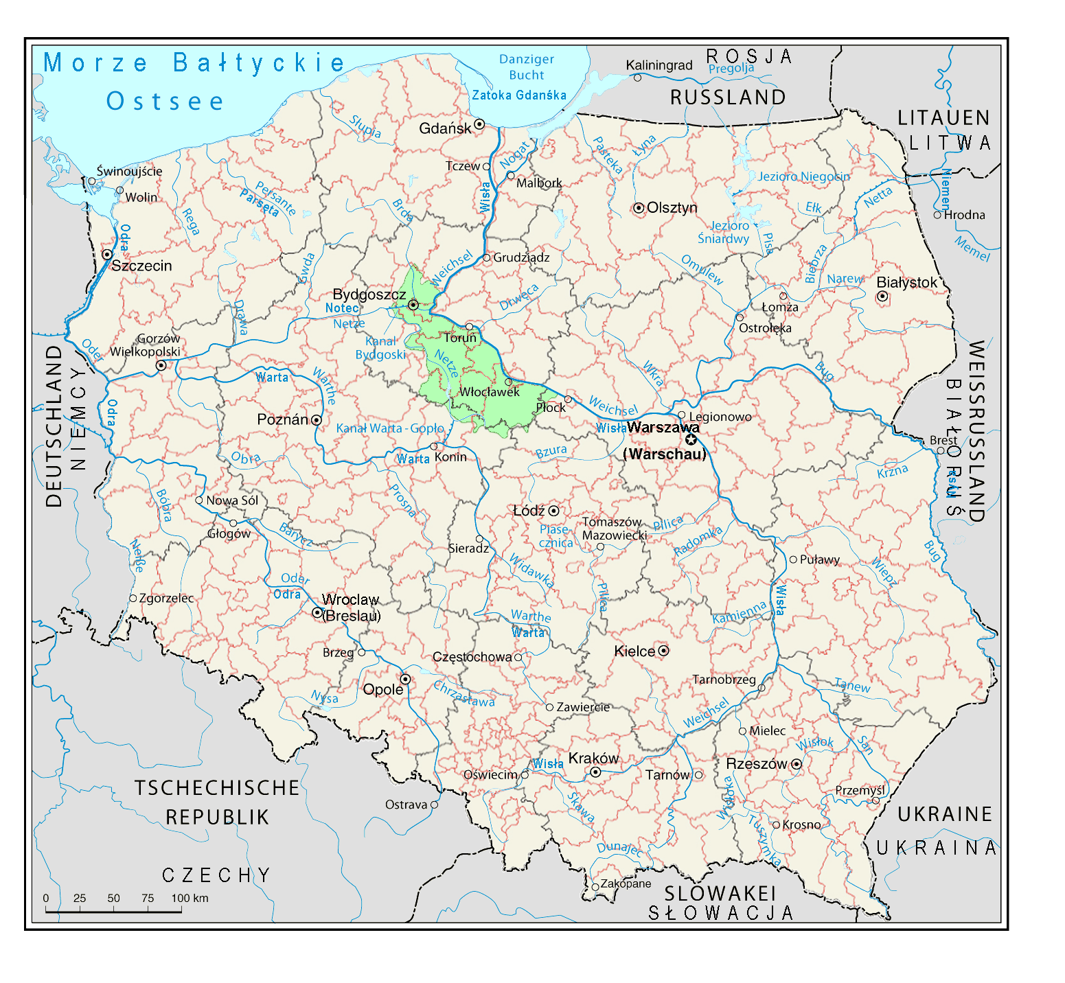 Position of the historical region, 1233–1267 even duchy, of Kujavia (PL: Kujawy) in Poland with borders od present day voivodeships and powiats. As this map has been created by superimposing two different maps, some borders in reality following rivers are shown parallel to these rivers in a little distance.